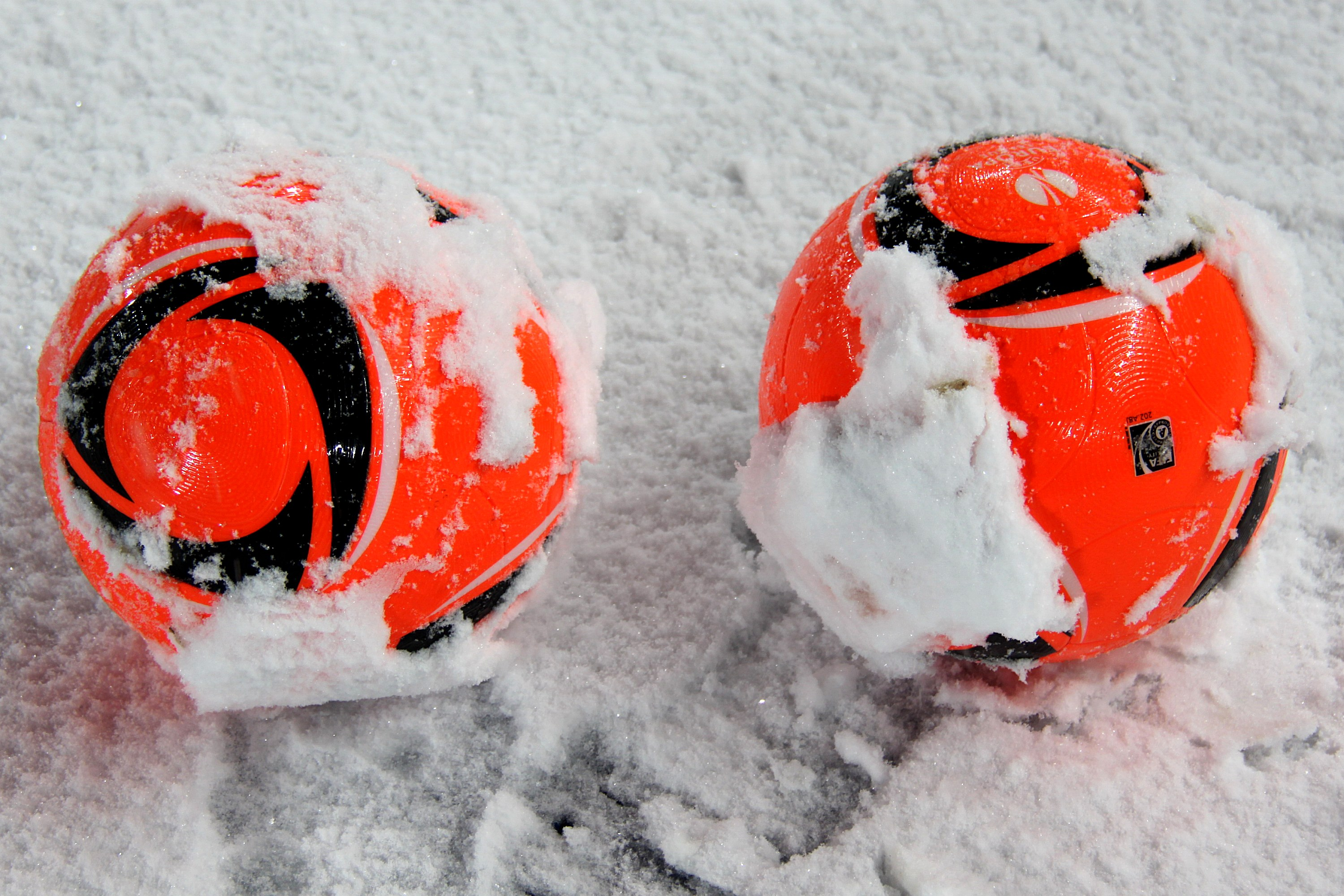 2010–11 UEFA Europa League - SK Rapid Wien vs. F.C. Porto 1:3 Ernst-Happel-Stadion (Vienna) – Official balls (in snow).